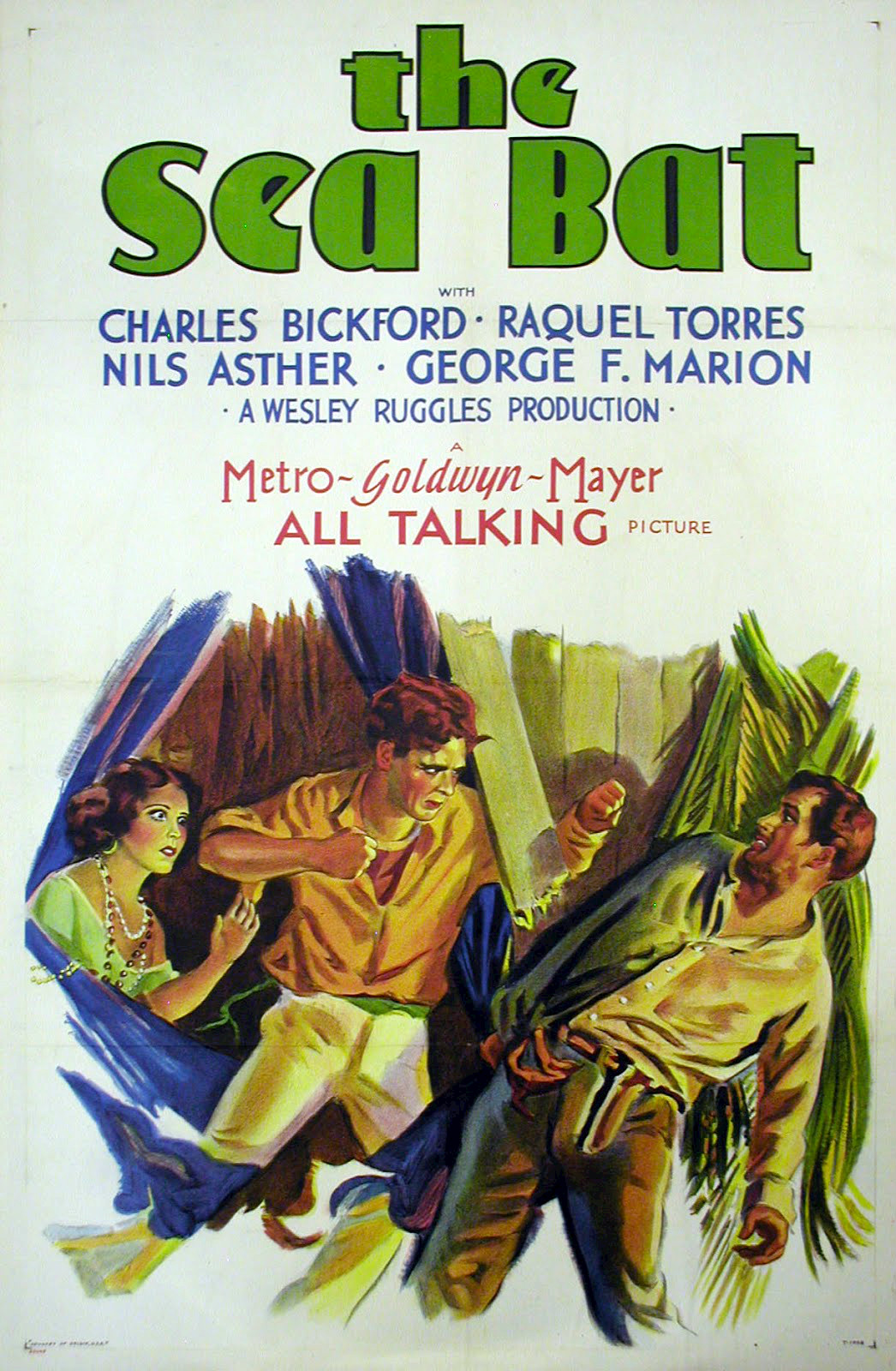 Poster for the 1930 film The Sea Bat. There are no copyright marks on the item. At bottom left are some numbers which appear to be connected with the printing of the poster and "Country of origin USA. There are also numbers at lower right which appear to be associated with the printing of the poster.